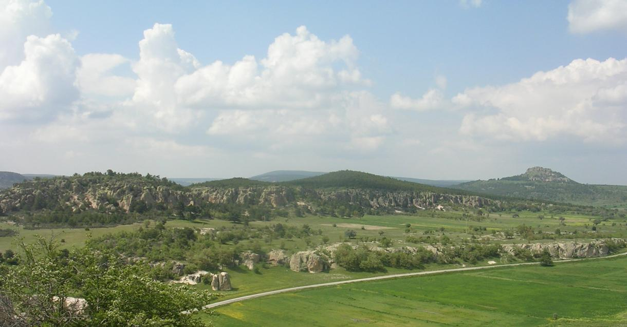 View of Frig Vadis (Phrygian Valley) near Eskişehir